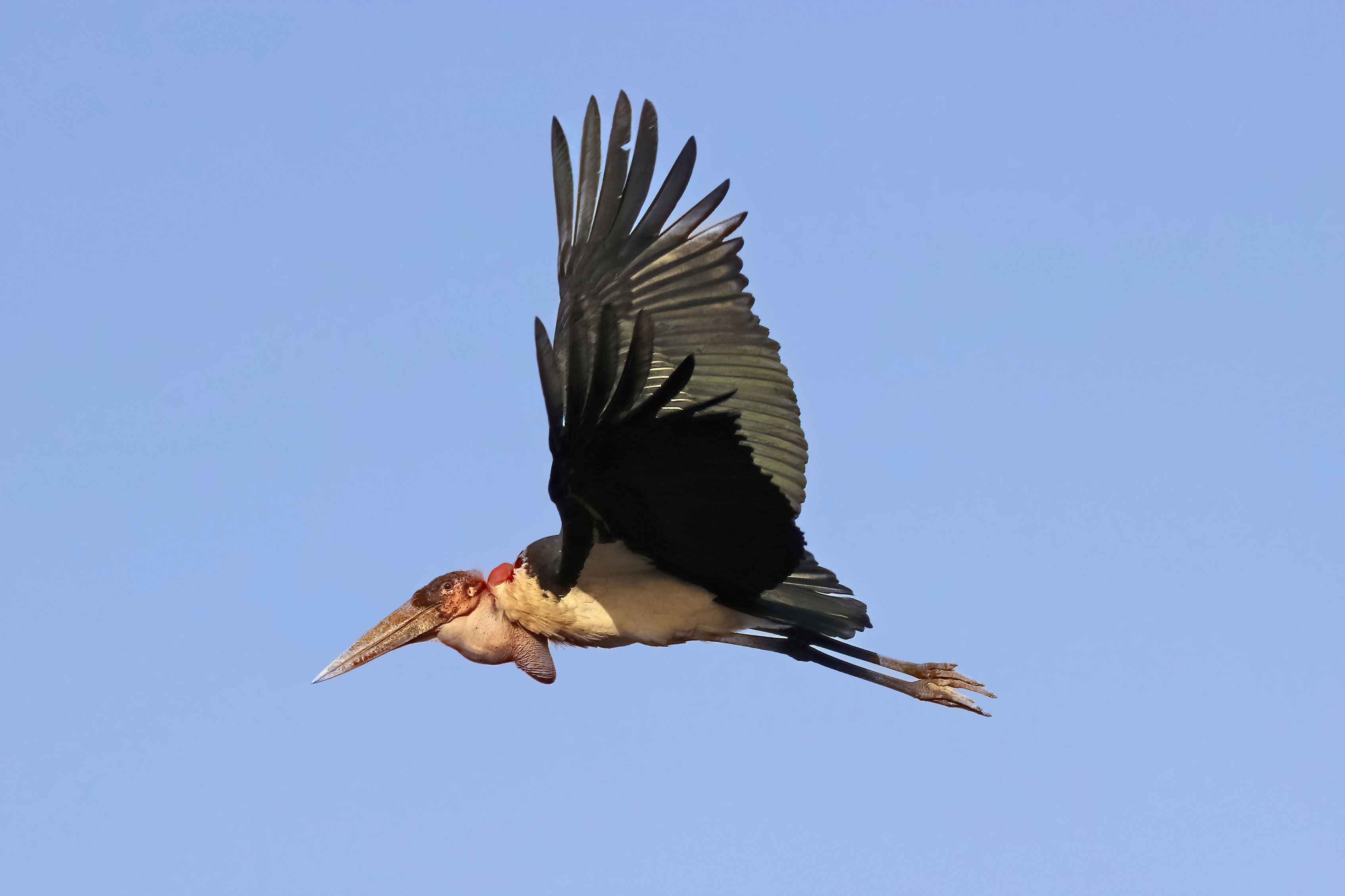 Marabou stork (Leptoptilos crumenifer), Lake Ziway, Ethiopia